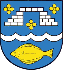 Coat of arms of the municipality Stein in Schleswig-Holstein, Germany.